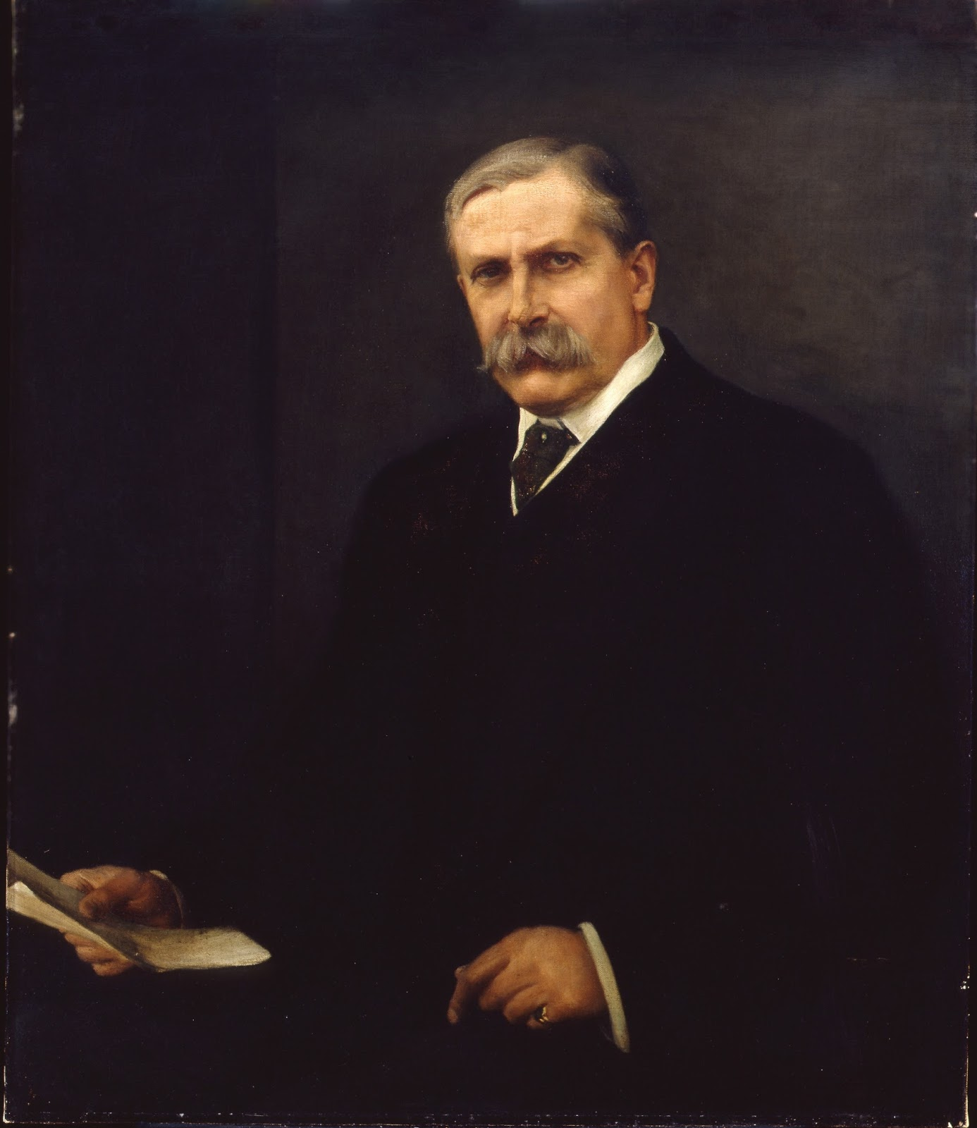 Portrait of Conolly Norman (1853–1908), Irish psychiatrist.